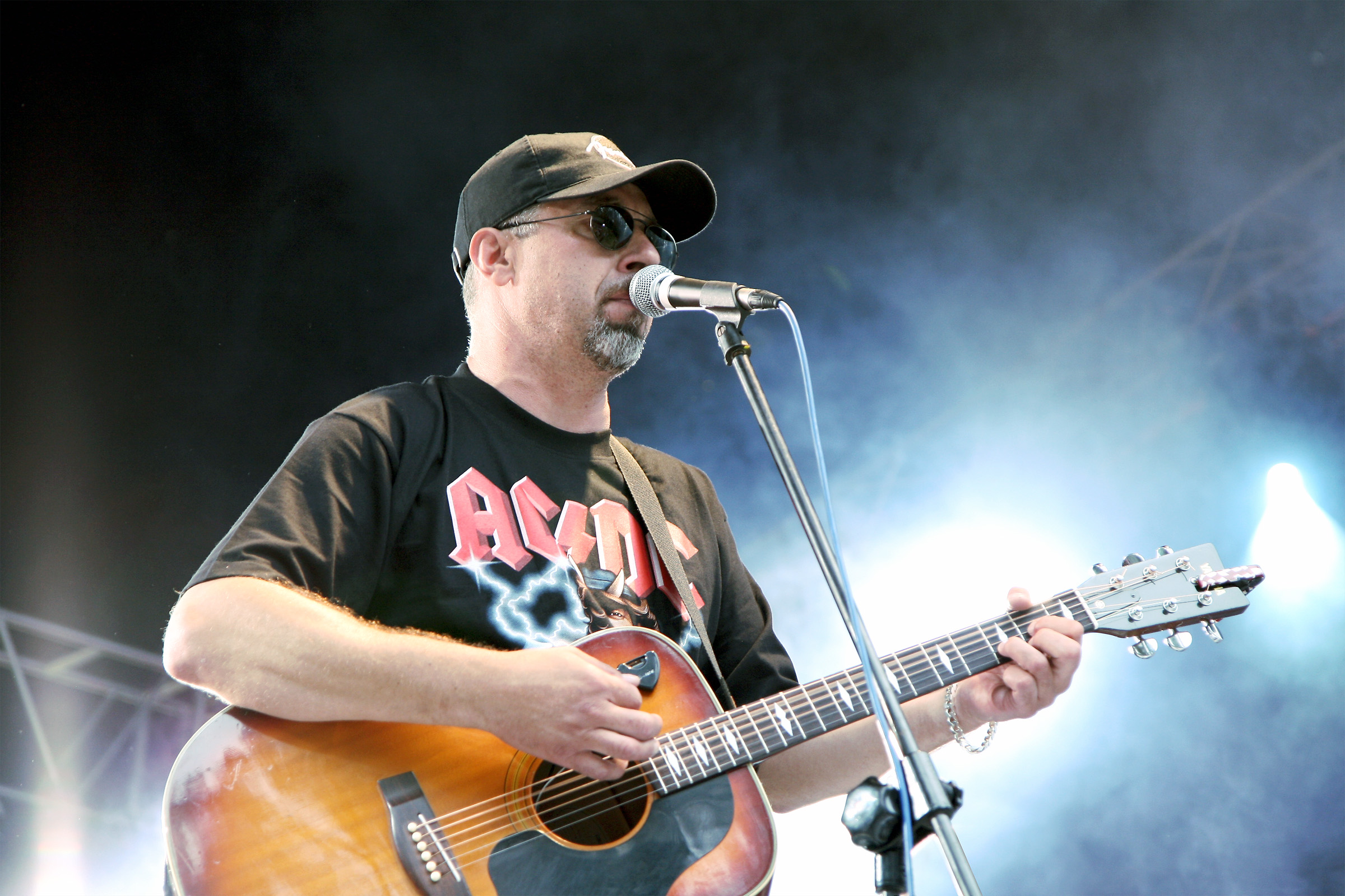 Ihar Varaškievič. Krama group at Basovišča-2008 festival in Gródek, Poland. 18.07.2008